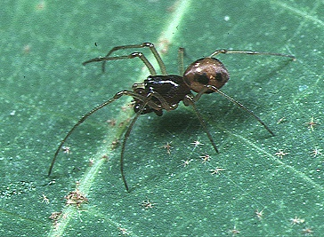 male Dyschiriognatha dentata from Okinawa.